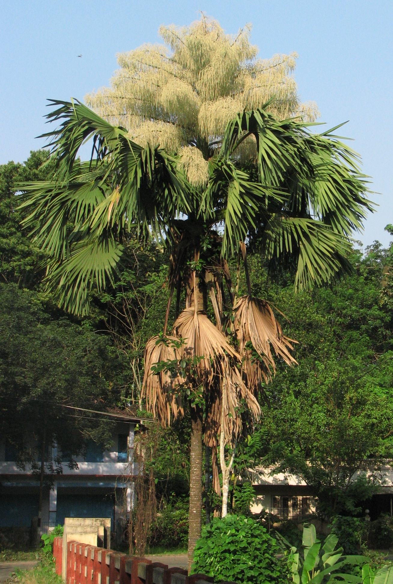 Corypha umbraculifera or Tail Pot Palm Flowering